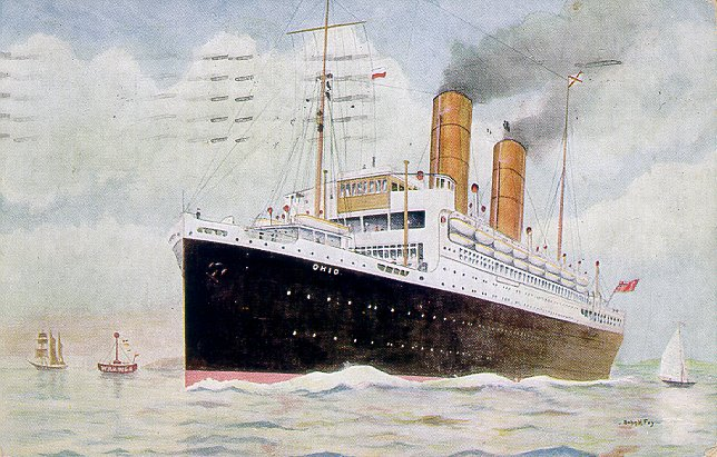 Royal Mail Steam Packet Company Liner Ohio, which was transferred to White Star Line and renamed Albertic in 1927